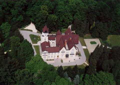 Szeleste, Hungary, aerialphotography This is a photo of a monument in Hungary, Identifier: 9359